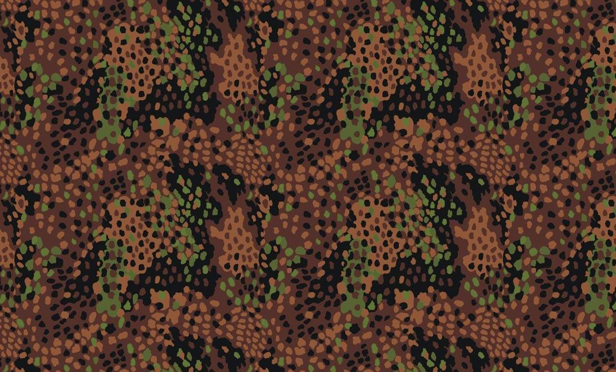 The Waffen-SS standard Camouflage "Erbsentarn" or dot 44 peas pattern as it is often known as.